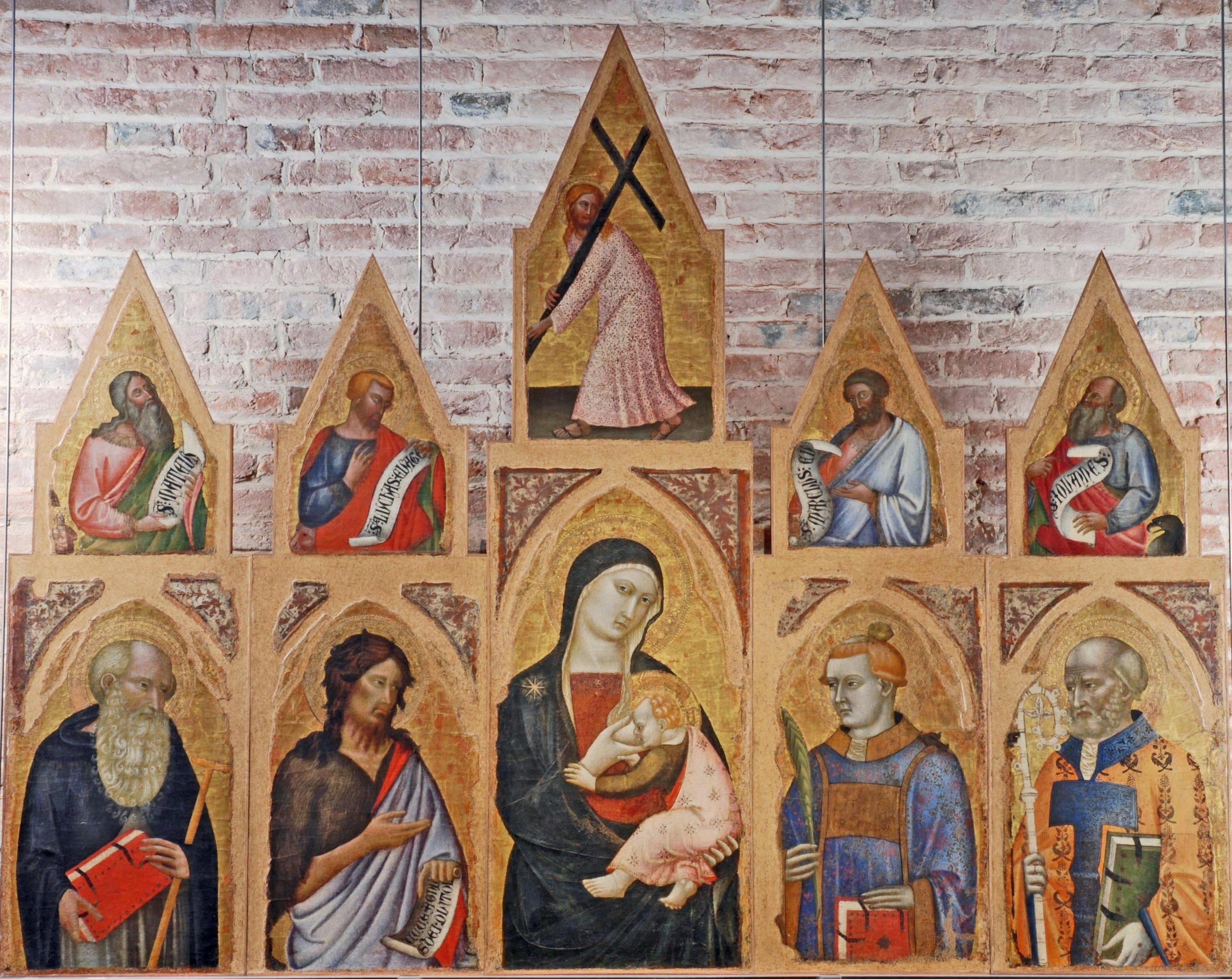 Francesco di Neri. Madonna della Latte e santi. 1340-50, Museo Nazionale di San Matteo, Pisa